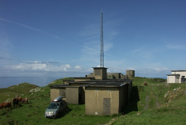 RAF Kilchiaran ROTOR radar station. WWII Chain Home Low radar station in background